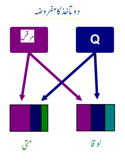 The Two-source Hypothesis to the synoptic problem